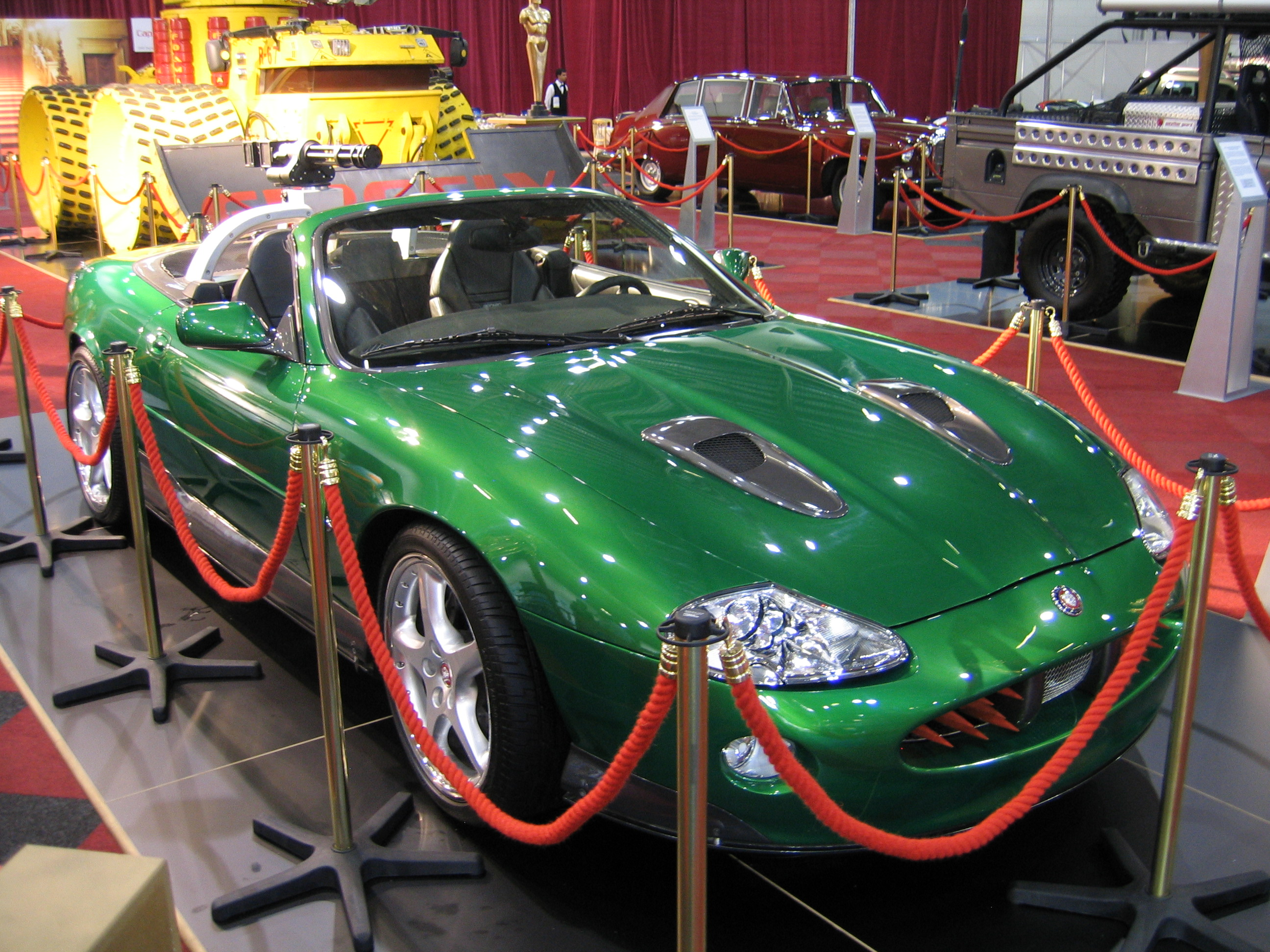 Jaguar XKR used by the villan in Die Another Day